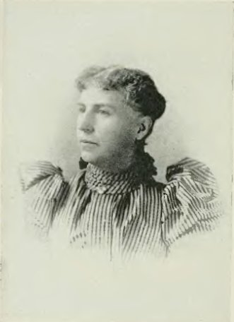 Illustration in History of Iowa From the Earliest Times to the Beginning of the Twentieth Century